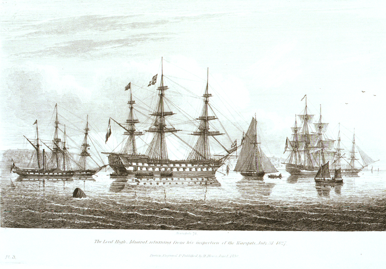 The Lord High Admiral returning from his inspection of the Warspite July 31 1827 Technique includes engraving.; Mounted with PAD6070.; Plate 3.